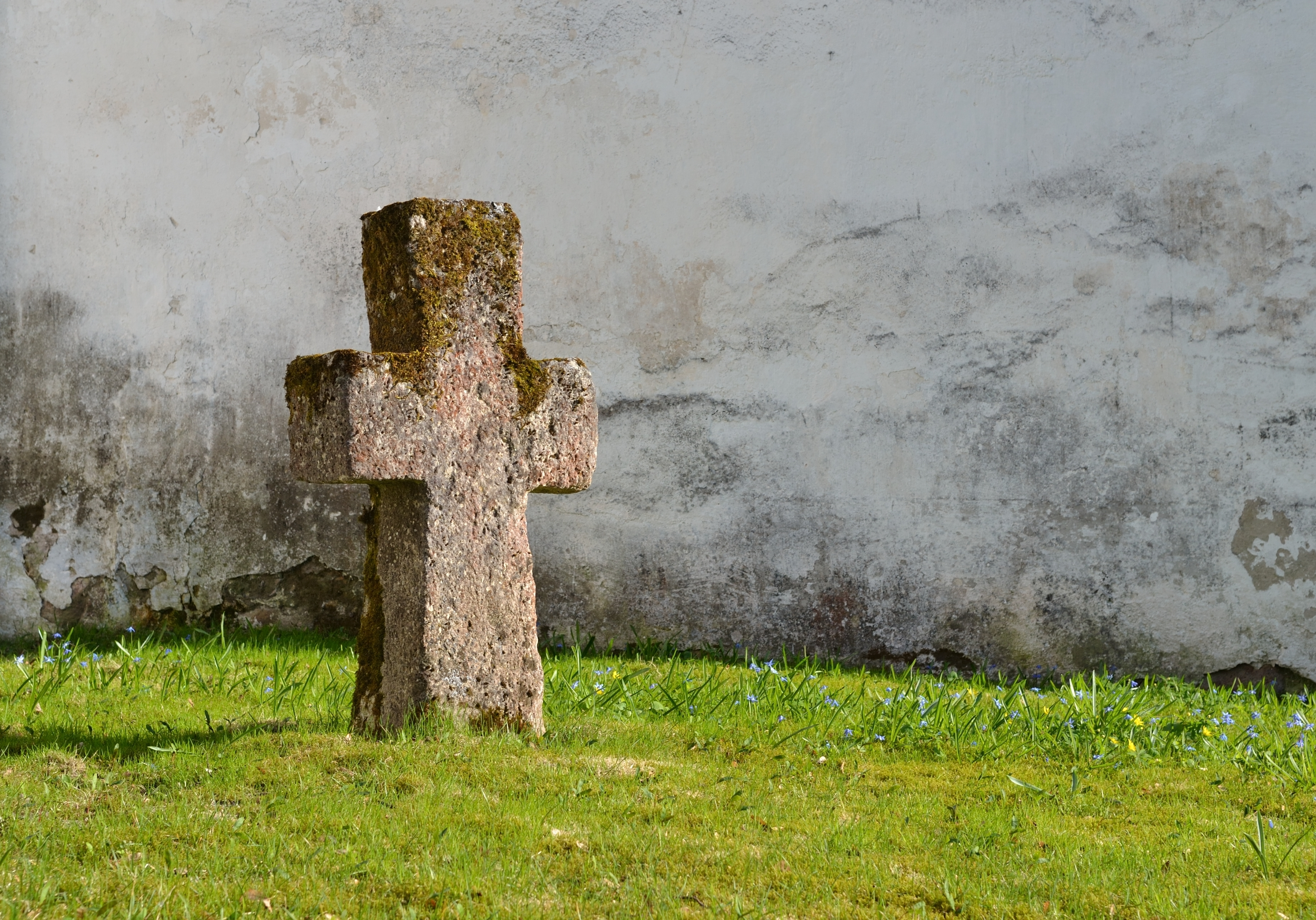 Ambla churchyard